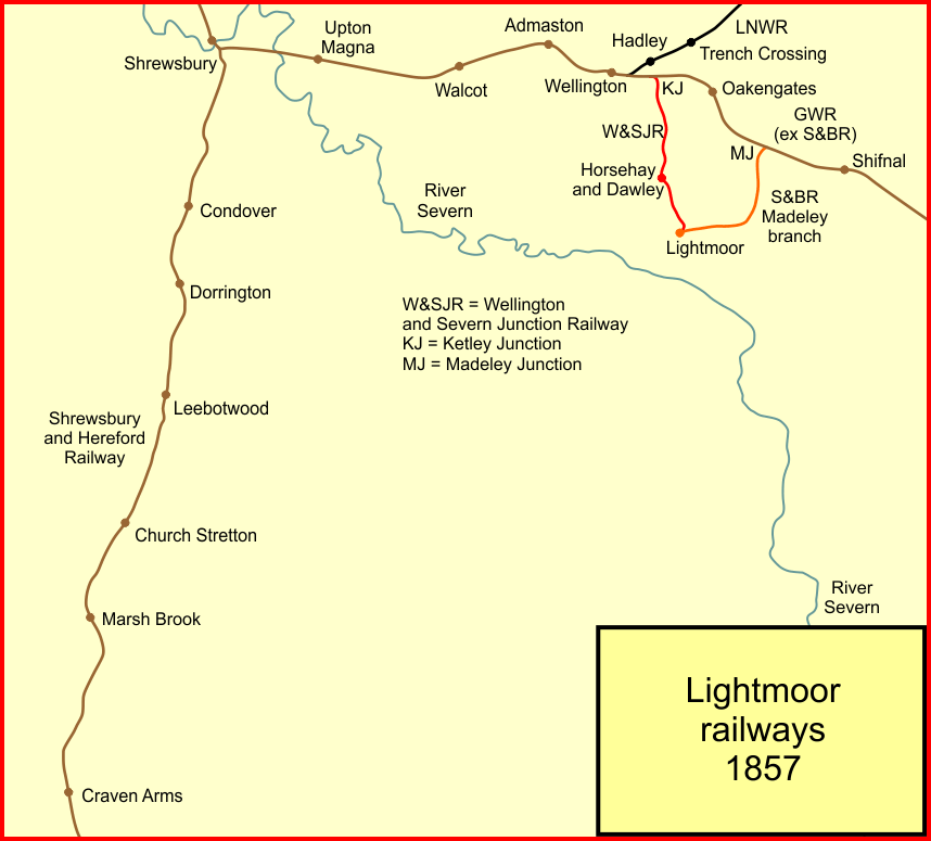 System map of the railways to Lightmoor, near Coalbrookdale, Shropshire, England in 1857